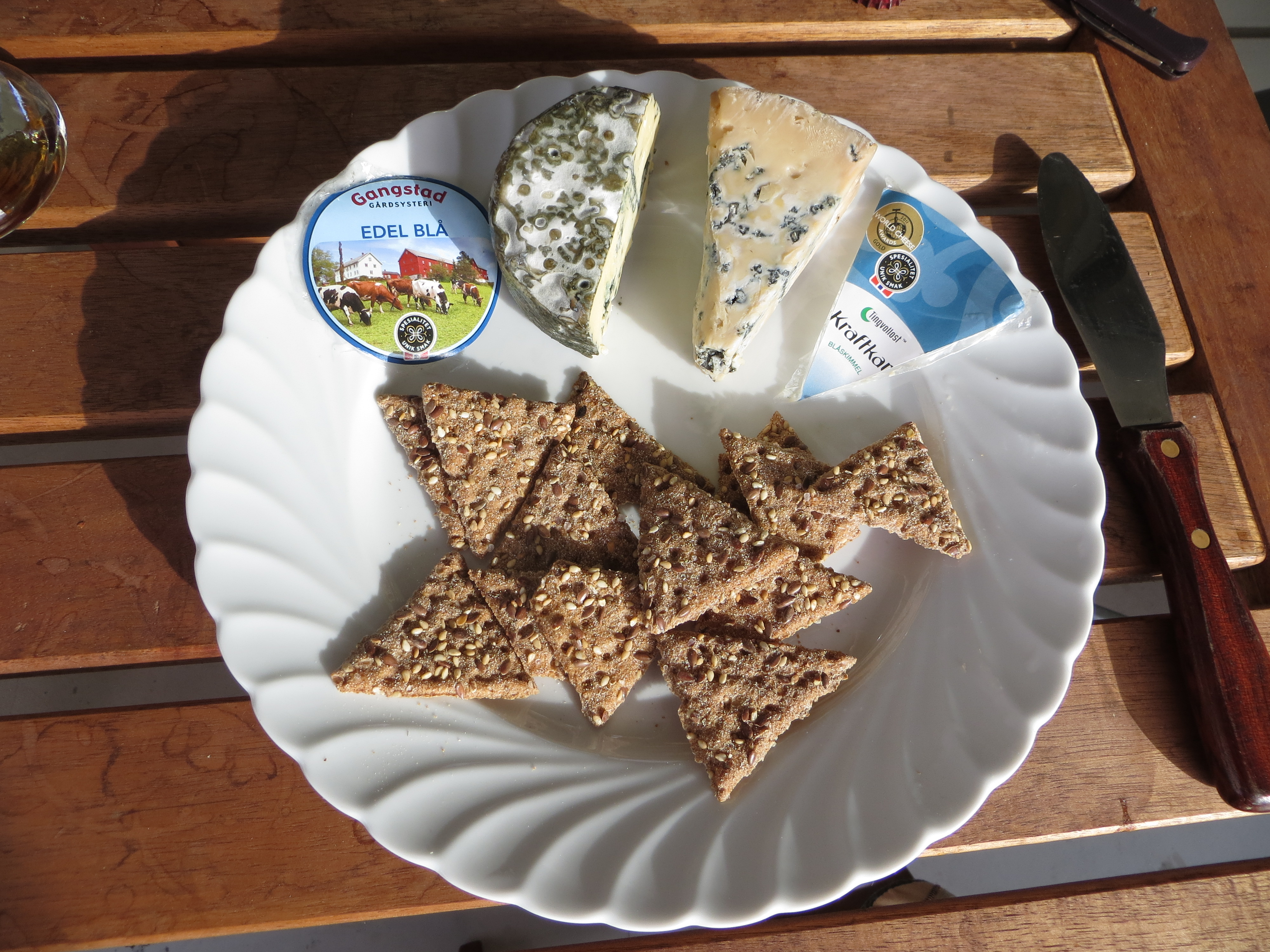 Kraftkar is a blue cheese from Tingvoll in Nordmøre, at the right top of the image. Edel Bla, another cheese, appears at the left top.